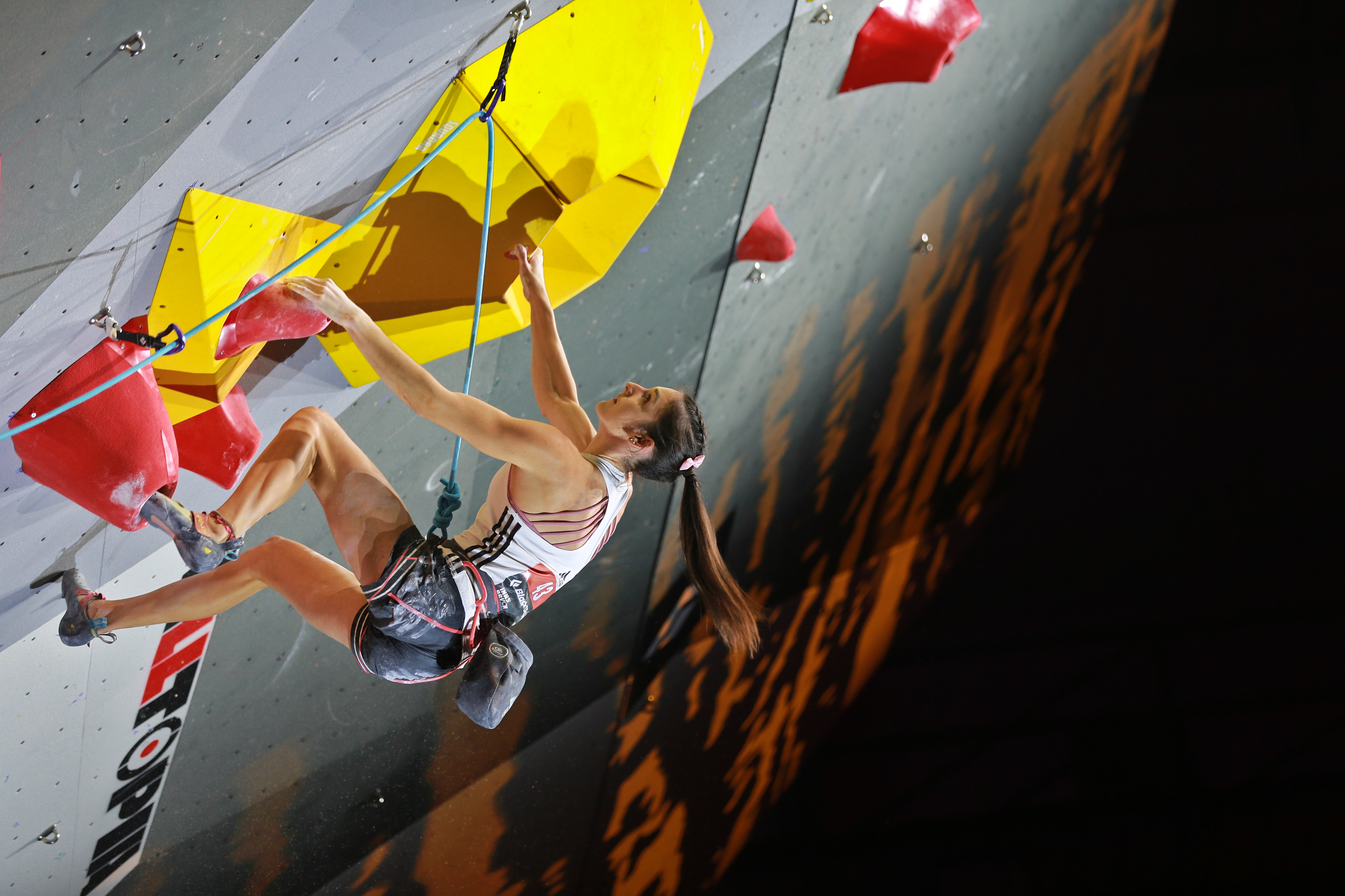 Climbing World Championships 2018 Lead Final Krampl